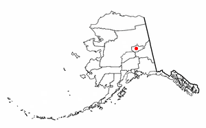 Adapted from Wikipedia's AK borough maps by Seth Ilys.